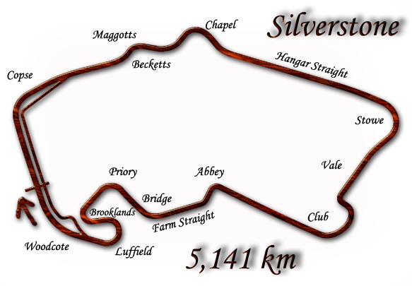 Diagram of the Silverstone Circuit following changes made in 2000. Used for British Grand Prix from 2000 to date.